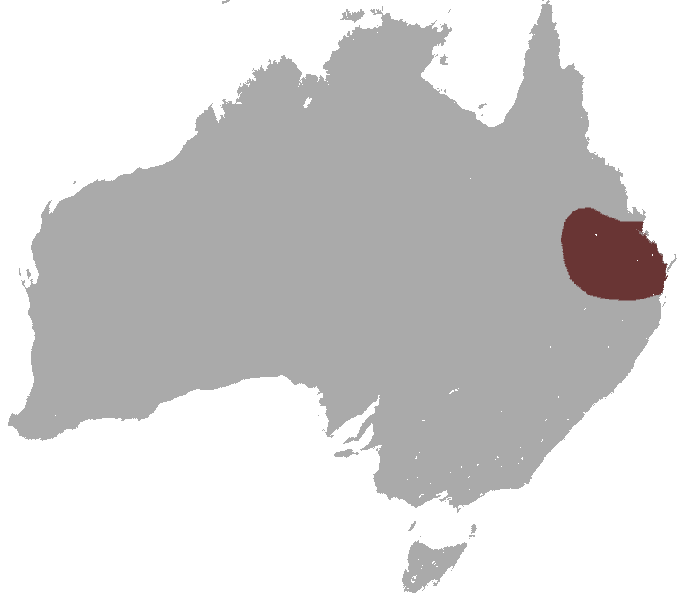 Herbert's Rock Wallaby (Petrogale herberti) range